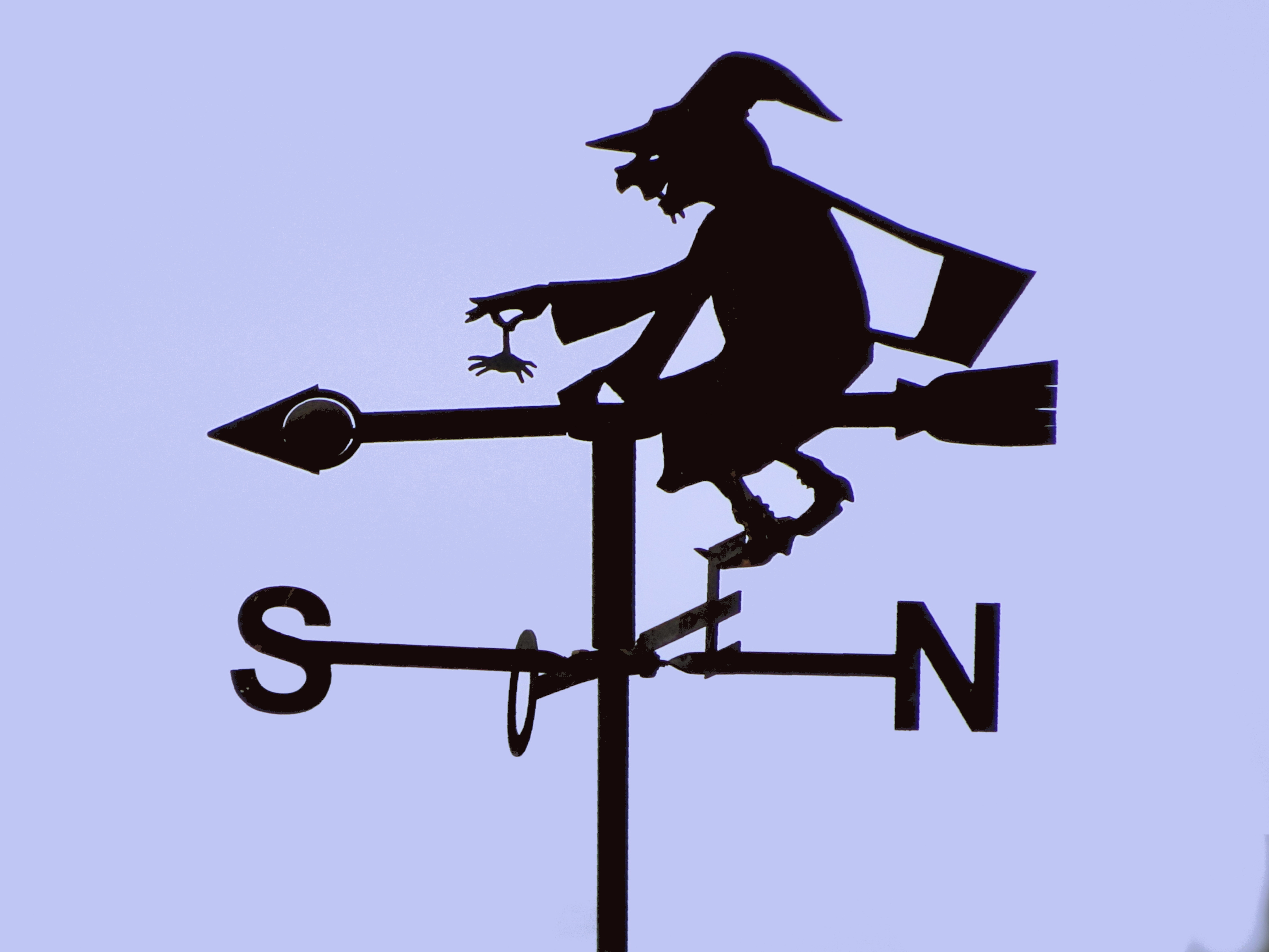 Weather vane witch with her spider in Sainghin-en-Mélantois Nord France.